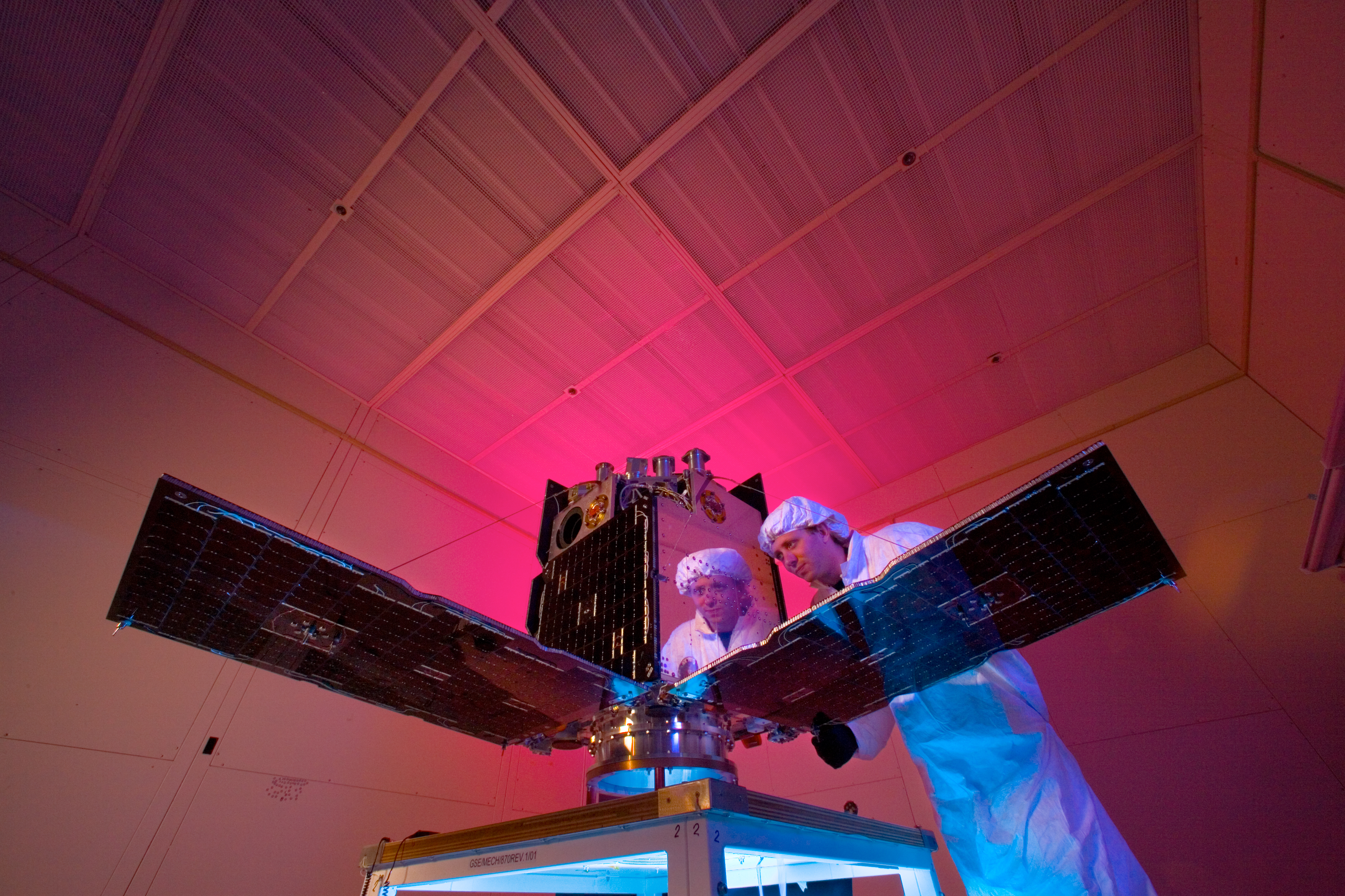 The Cibola Flight Experiment (CFE) is an experimental small satellite that was designed to prove that off-the-shelf computer processors can be used for supercomputing in space. The processors, also called field-programmable gate arrays, can be reconfigured while the satellite is in orbit, enabling researchers to modify them for a variety of tasks like studying lightning, disturbances in the ionosphere, and radio-frequency sources. The CFE #satellite was launched on March 8, 2007, in low-earth orbit, and has operated successfully since its deployment. In this 2006 photo, Los Alamos National Laboratory scientist Daniel Seitz works on preparing the CFE satellite.